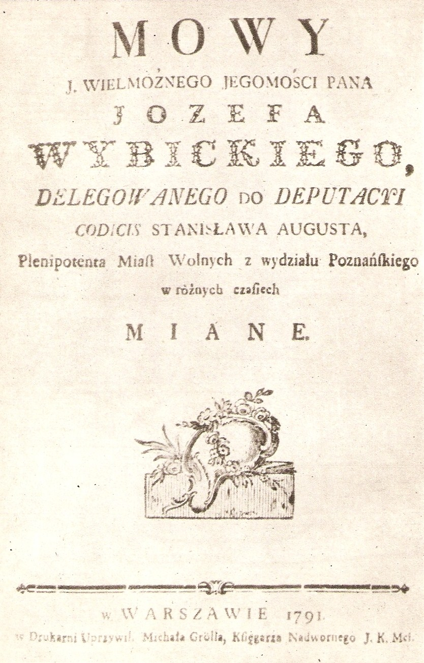 Józef Wybicki, "Mowy" (1791)